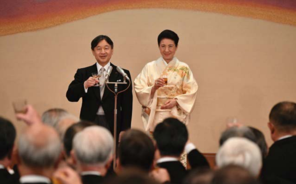 Court Banquets after the Ceremony of the Enthronement